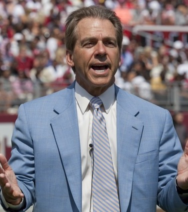 University of Alabama Football is huge. The name of the football program is Alabama Crimson Tide. The team currently competes in NCAA Football Bowl Subdivision as a member of the Southeastern Conference. Since beginning play in 1892, the program has claimed 13 national championships. This is what is called A-Day, which is a Spring scrimmage or a practice session for the Alabama football team. 92,000 Alabama Football fans attended the game. There was no admission fee. Most of the fans wore crimson and white with the name of the football team on their garments. Even the children were all decked out in the teams colors. Nick Saban, who is the Alabama team coach, gives interviews and watches all the plays during this important spring scrimmage.